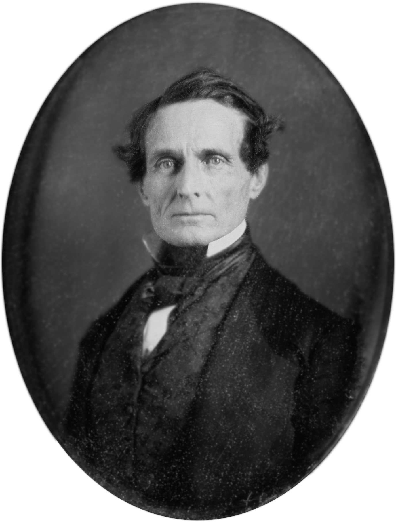 Daguerreotype of Jefferson Davis